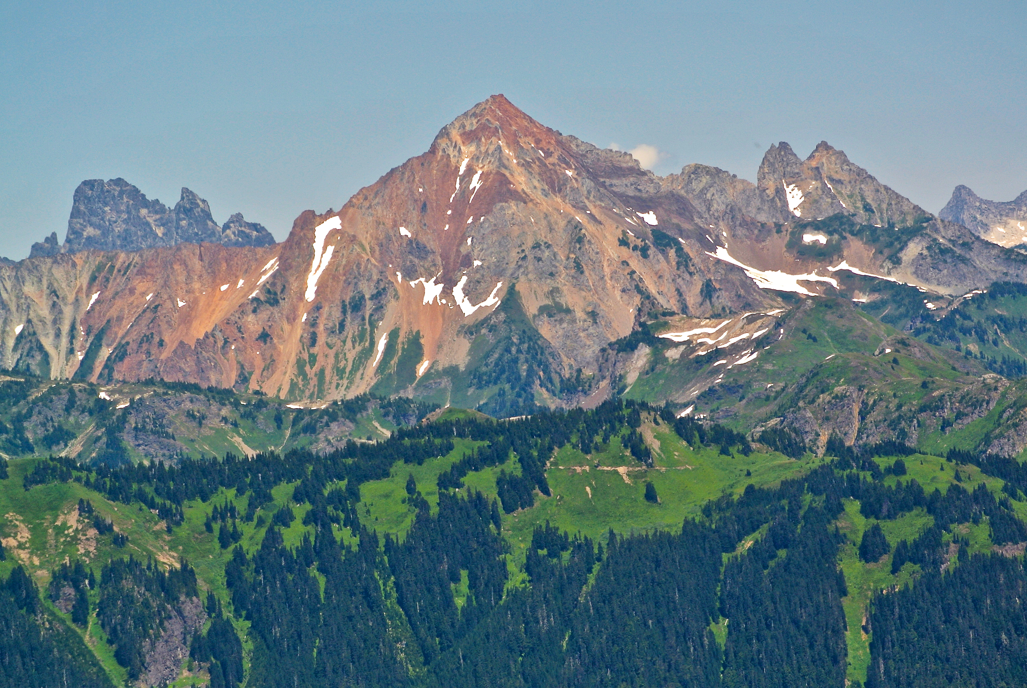 Slesse, Mt. Larrabee, and the Pleiades seen from Skyline Divide Trail in the Mt Baker area